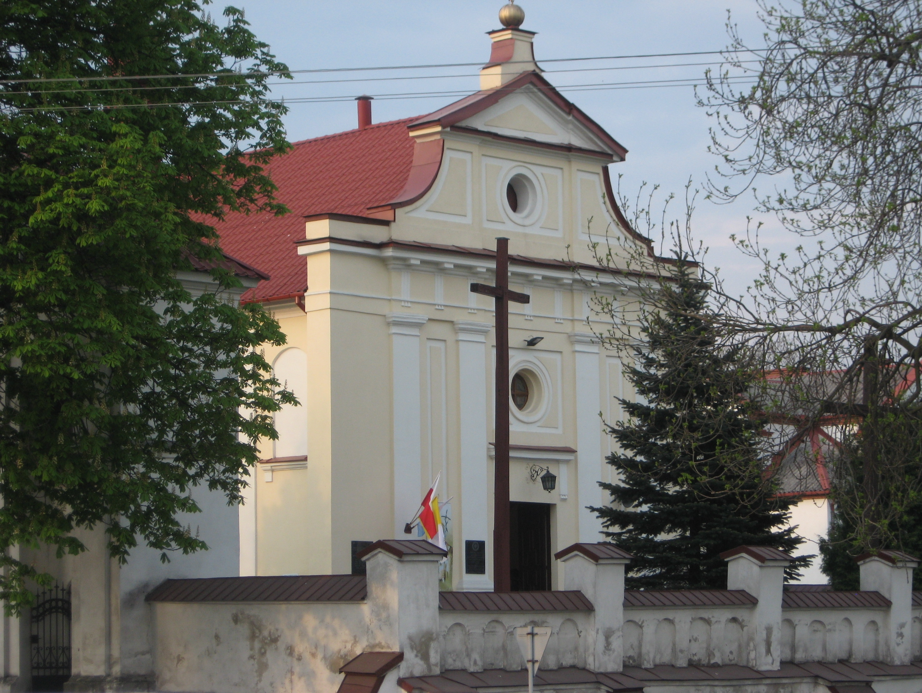 Niemojki - church